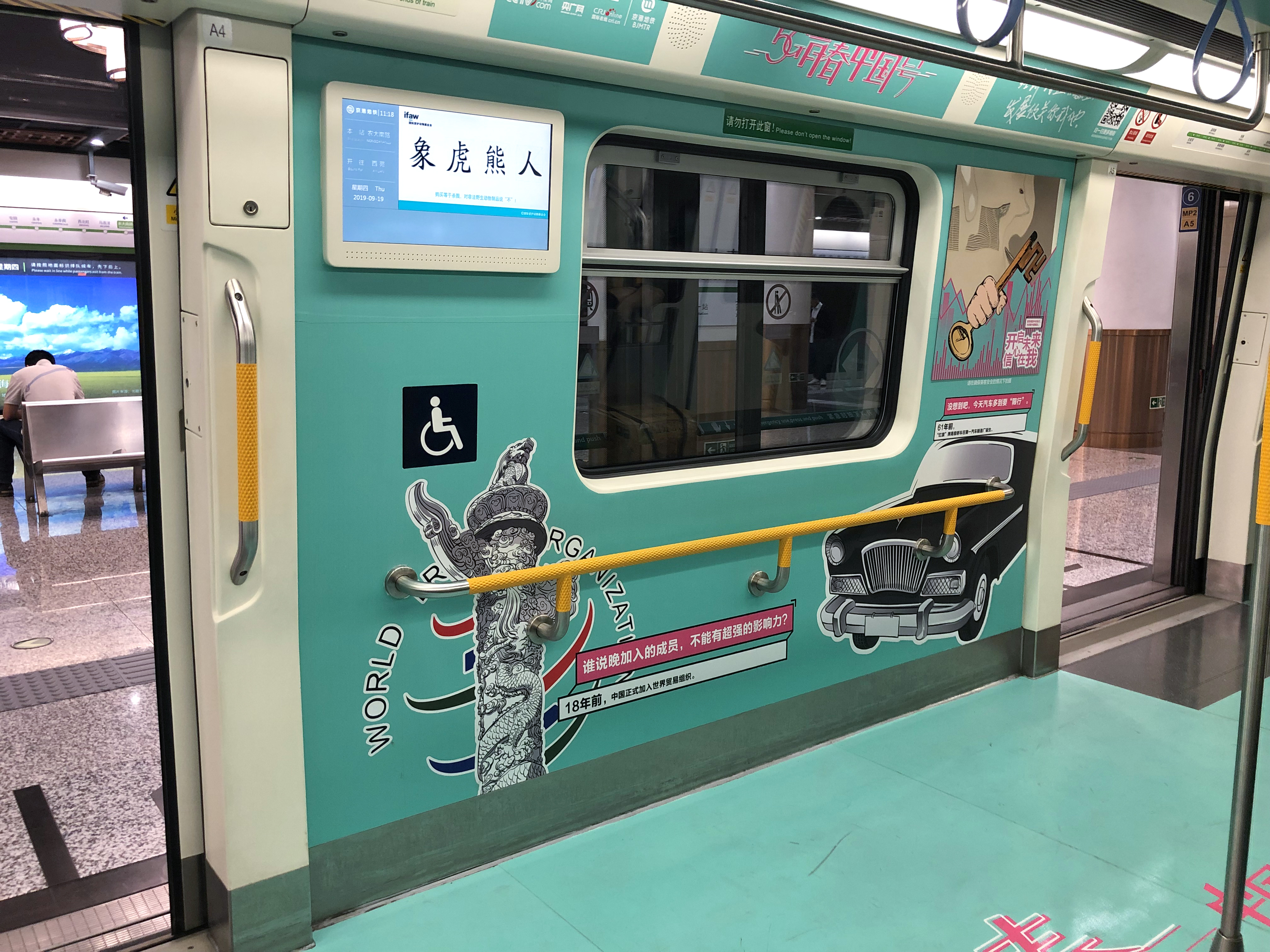 From FAW to tail number limit.